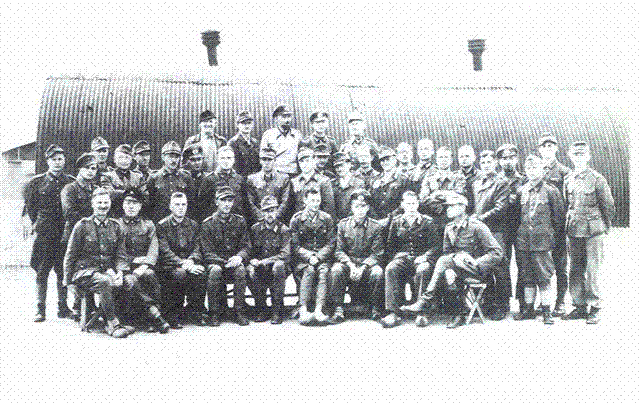 Prison camp for senior officers and German soldiers Mulsanne (Sarthe in France from 1945 to 1947).